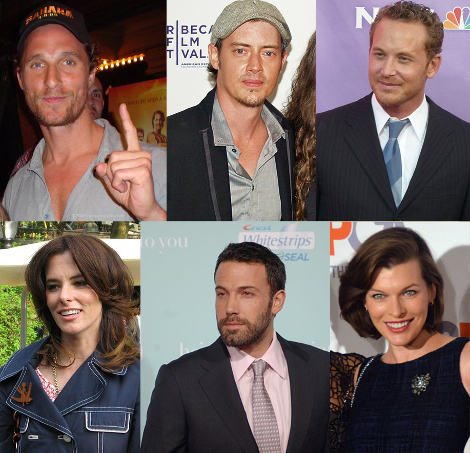 Matthew McConaughey at the March 2005 premiere of SAHARA in Austin, Texas. Photo donated by the photographer, Rana Royale. Matthew McConaughey at the March 2005 premiere of SAHARA in Austin, Texas. Photo donated by Rana Royale (photographer). Cole Hauser at the TCA 2010